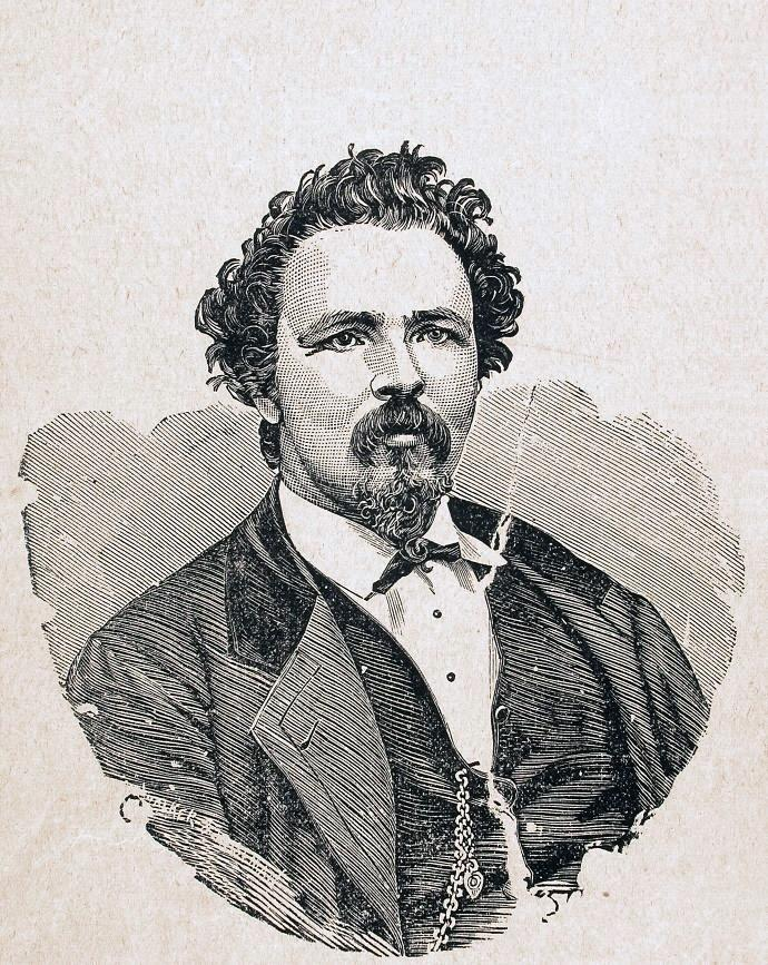 Engraving, Portrait of Joe Beef, John Henry Walker (1831-1899), about 1875, Ink on paper - Wood engraving - 104.2 x 68.3 cm